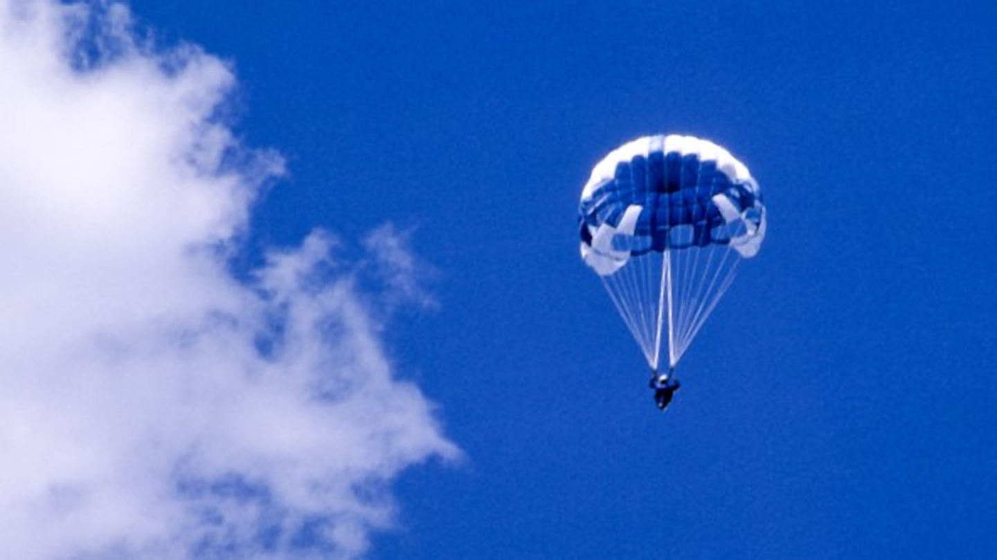 Circa 1970s 'High Performance' 'round' elliptical canopy notably showing its 5 rear vents to give it forward drive, and in the middle of the suspension lines, the 2 thick centre lines pulling down the apex. Compared to today's ubiquitous ram air 'square' canopies, the performance is sadly lacking, but the canopies these replaced from the mid-1960s to late '70s were even worse - usually modified round military canopies (commonly called conventional canopies or "cheapos"). This is a Niagara Parachutes 'Cobra' and the image is cropped 16:9.